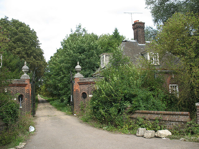 Back entrance to Briggens House golf club An exclusive golf club in Hertfordshire, reached by a long drive from Roydon. From the neglected appearance of the lodges and gates, this is probably only the 'tradesmens' entrance.